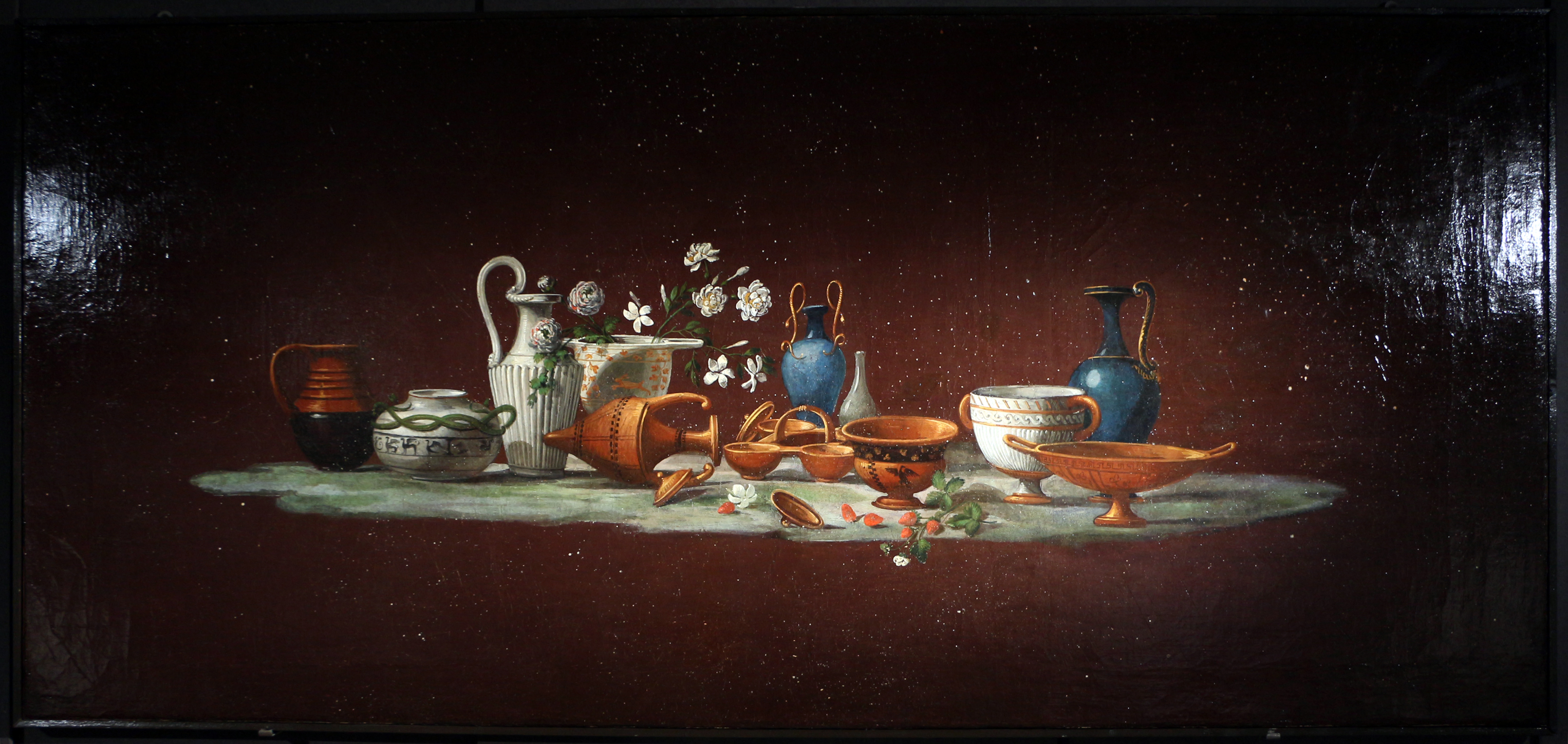 Winckelmann, Firenze e gli Etruschi (2016 exhibition)